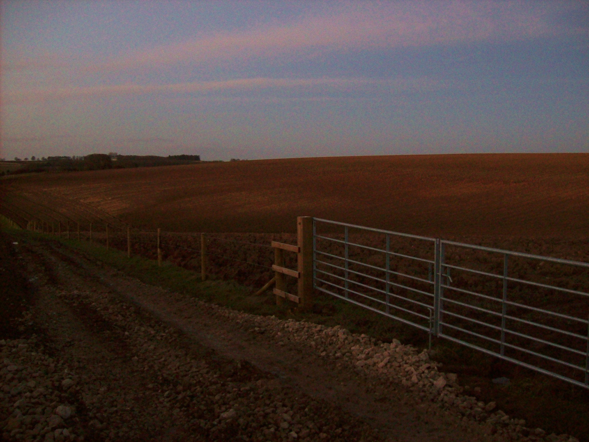 Towton, battlefield walk